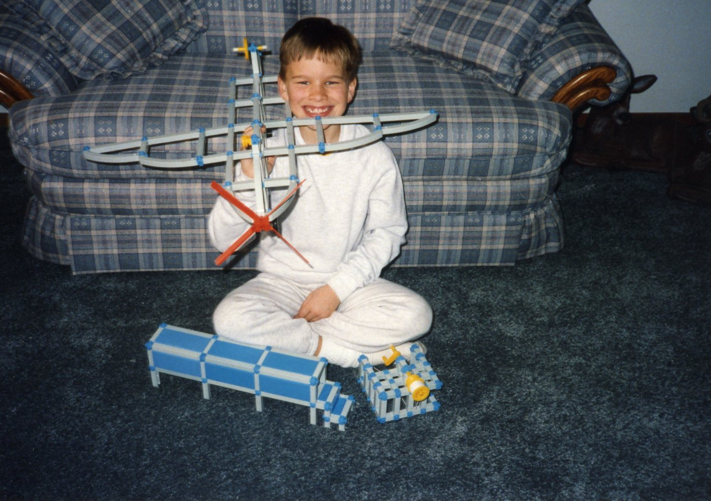 A child holds creations made out of Construx toys.